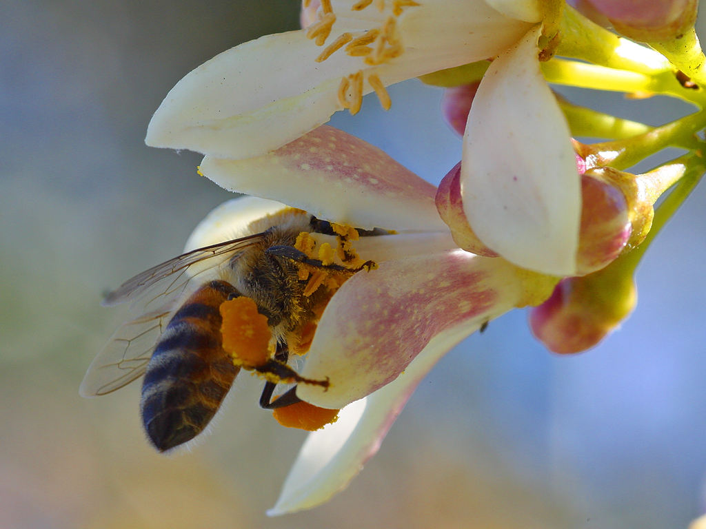 Bee and Meyer lemon flowers